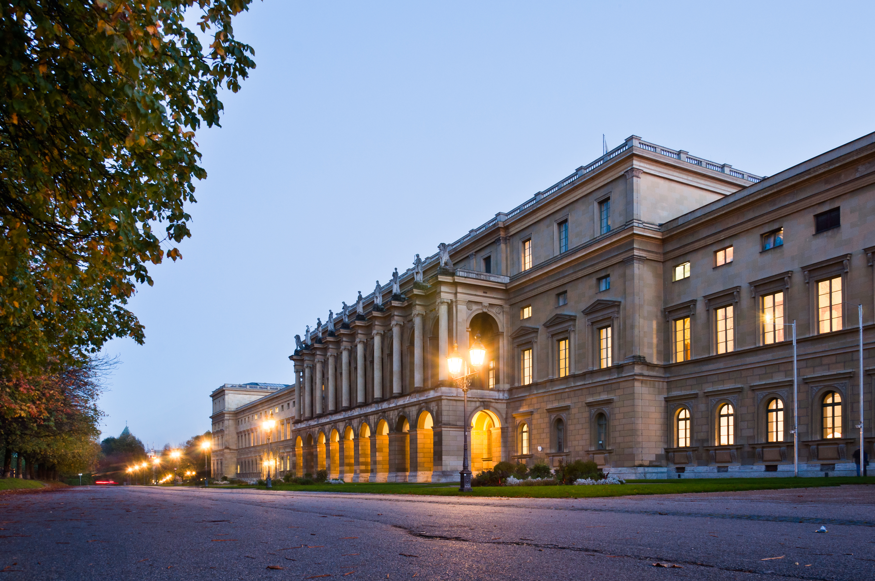 Münchner Residenz (Munich Residence), Munich, Germany.